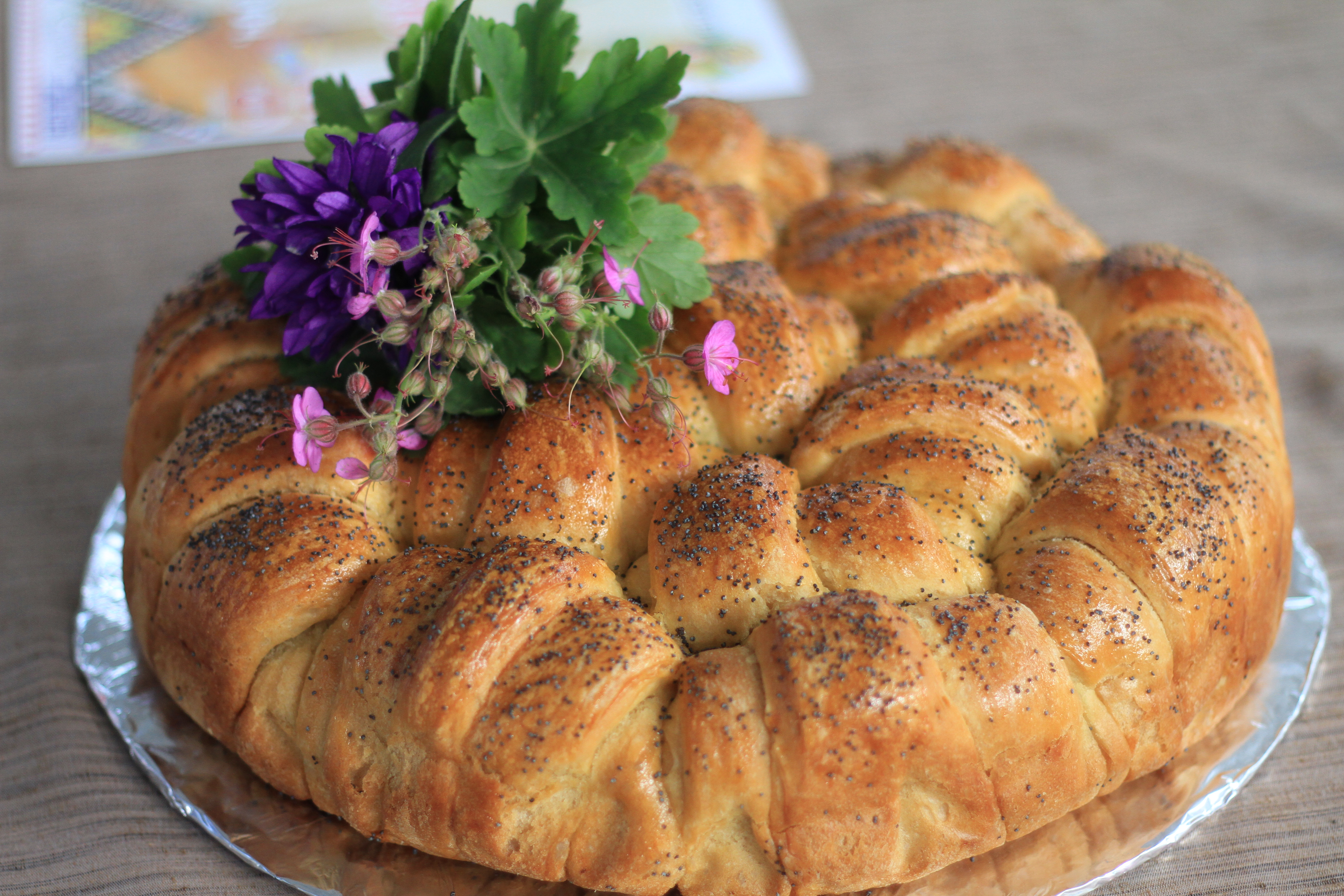 Traditional Bulgarian Pugacha This photo has been taken in the country: Bulgaria